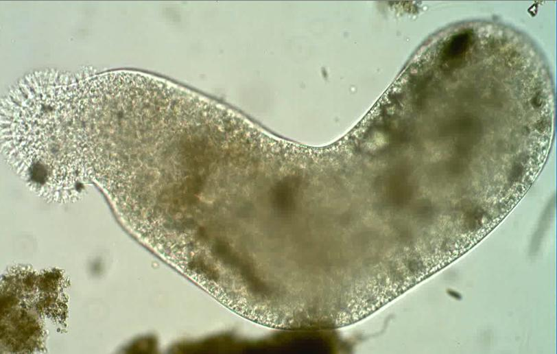 Pelomyxa palustris. Collected from a natural pond in Wakefield, Quebec.